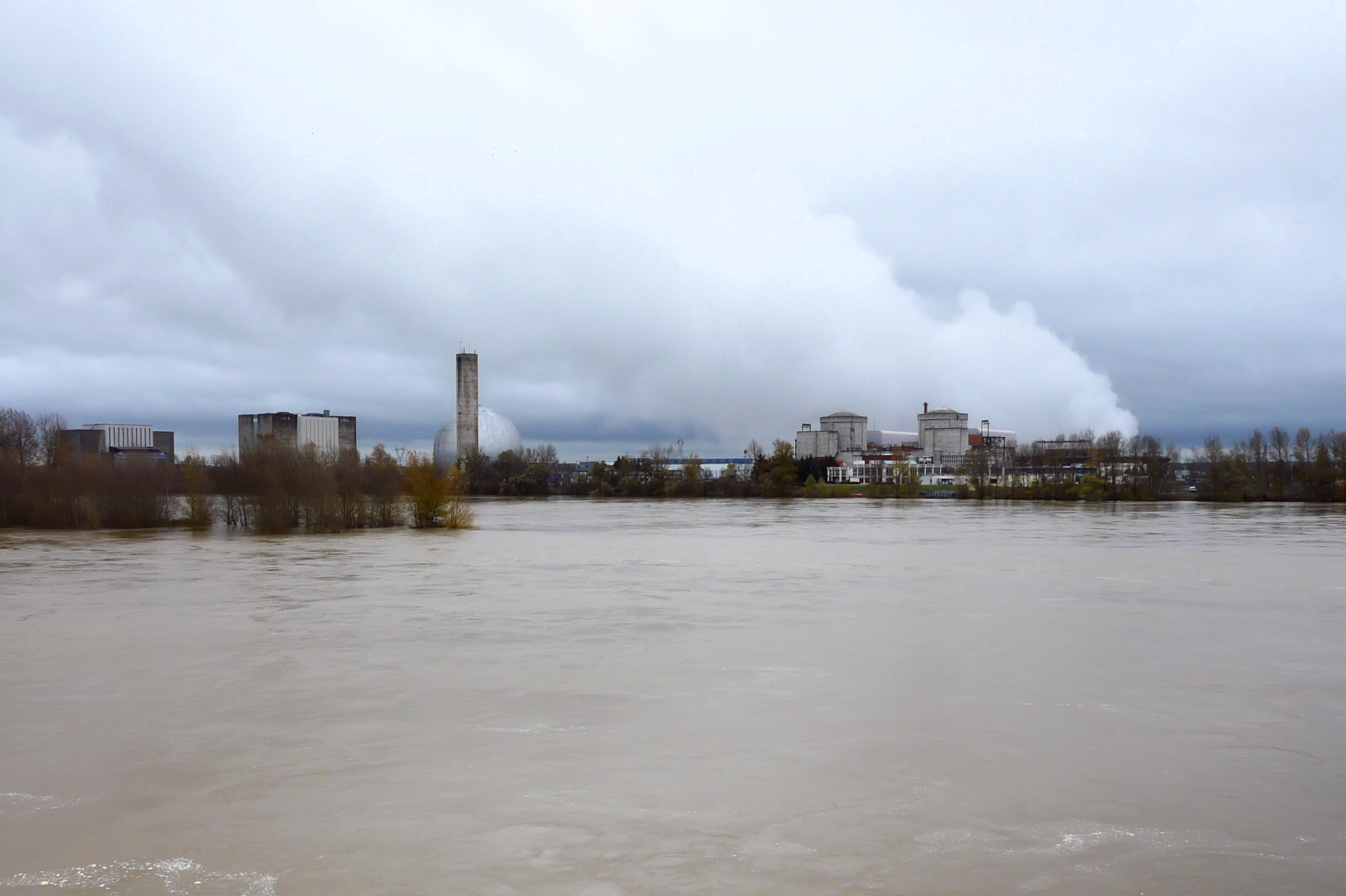 The nuclear power plant of Chinon (France) taken from the opposite side of the Loire river.